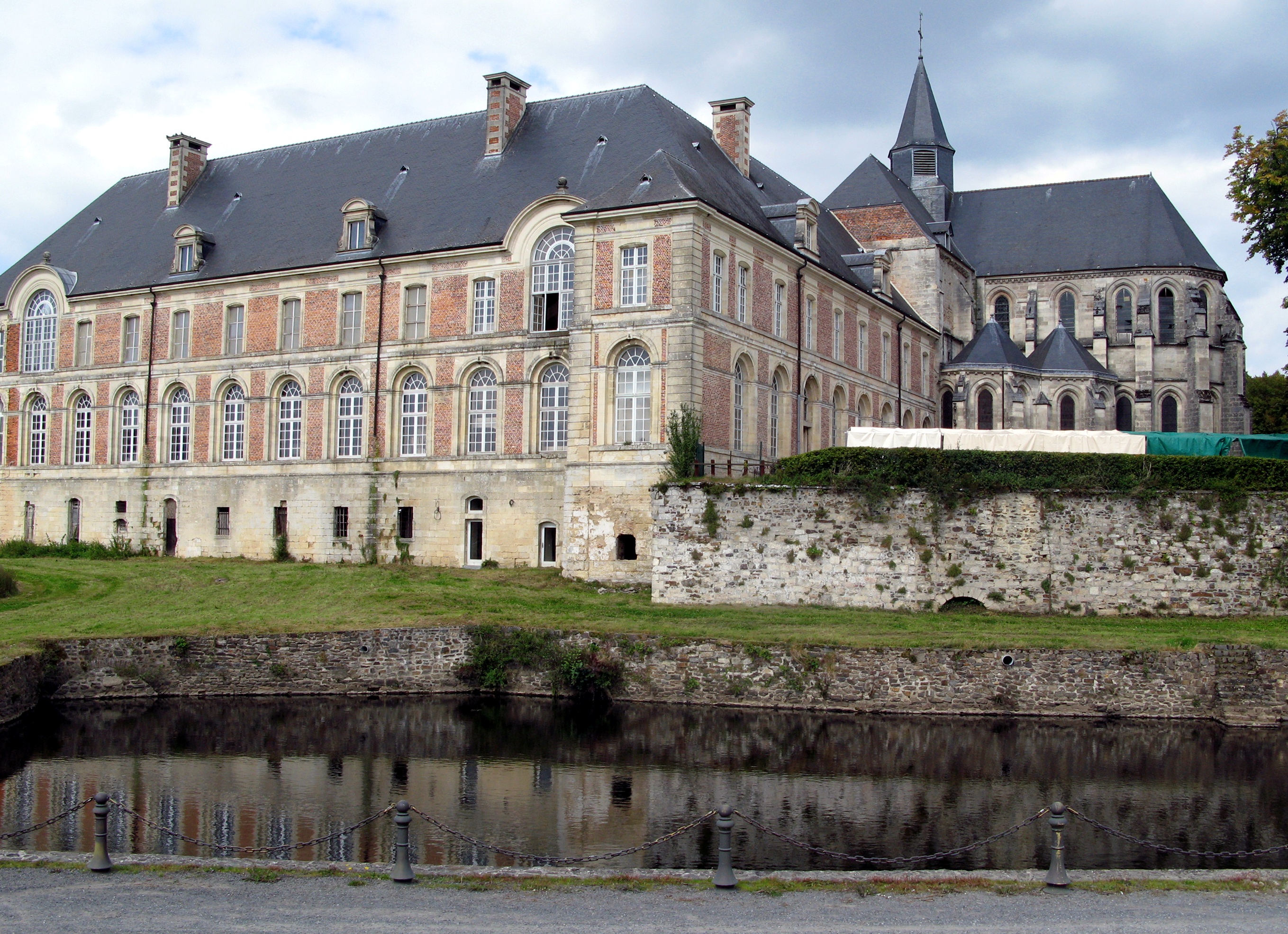 Saint-Michel (Aisne, France) - L'abbaye.